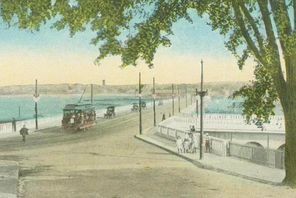 Original title: "The New Million Dollar Bridge, Portland and South Portland Bridge, Portland, ME" -- from a c. 1916 postcard published by Chisholm Brothers, Portland, Maine. The bridge opened in 1916. Category:Images of Maine